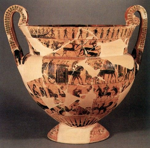 Attic Black-Figure Volute-Krater, known as the Francois vase, ca. 570-565 BCE signed by the potter Ergotimos and the painter Kleitias. This cc3.0 image was uploaded from Ancient History Encyclopedia, and has a detailed description at